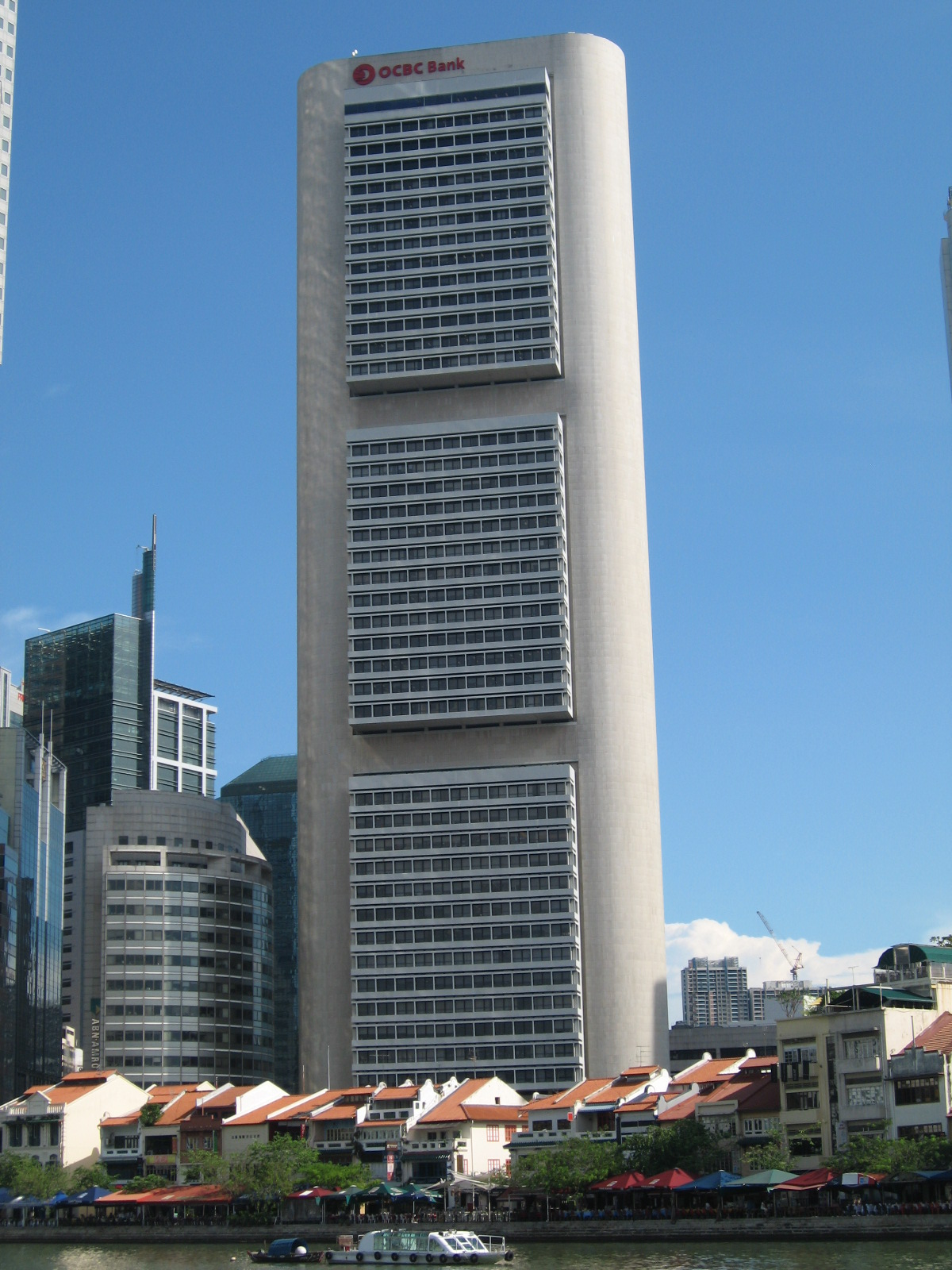 OCBC Centre.